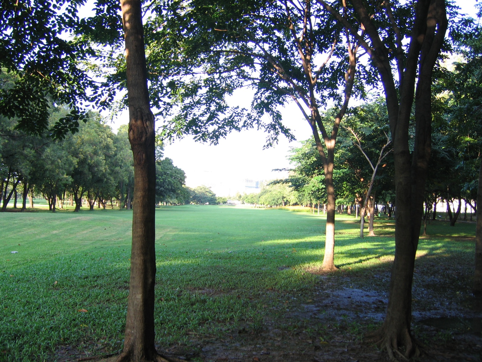 Wachirabenchatat Park, Chatuchak District, Bangkok, Thailand.